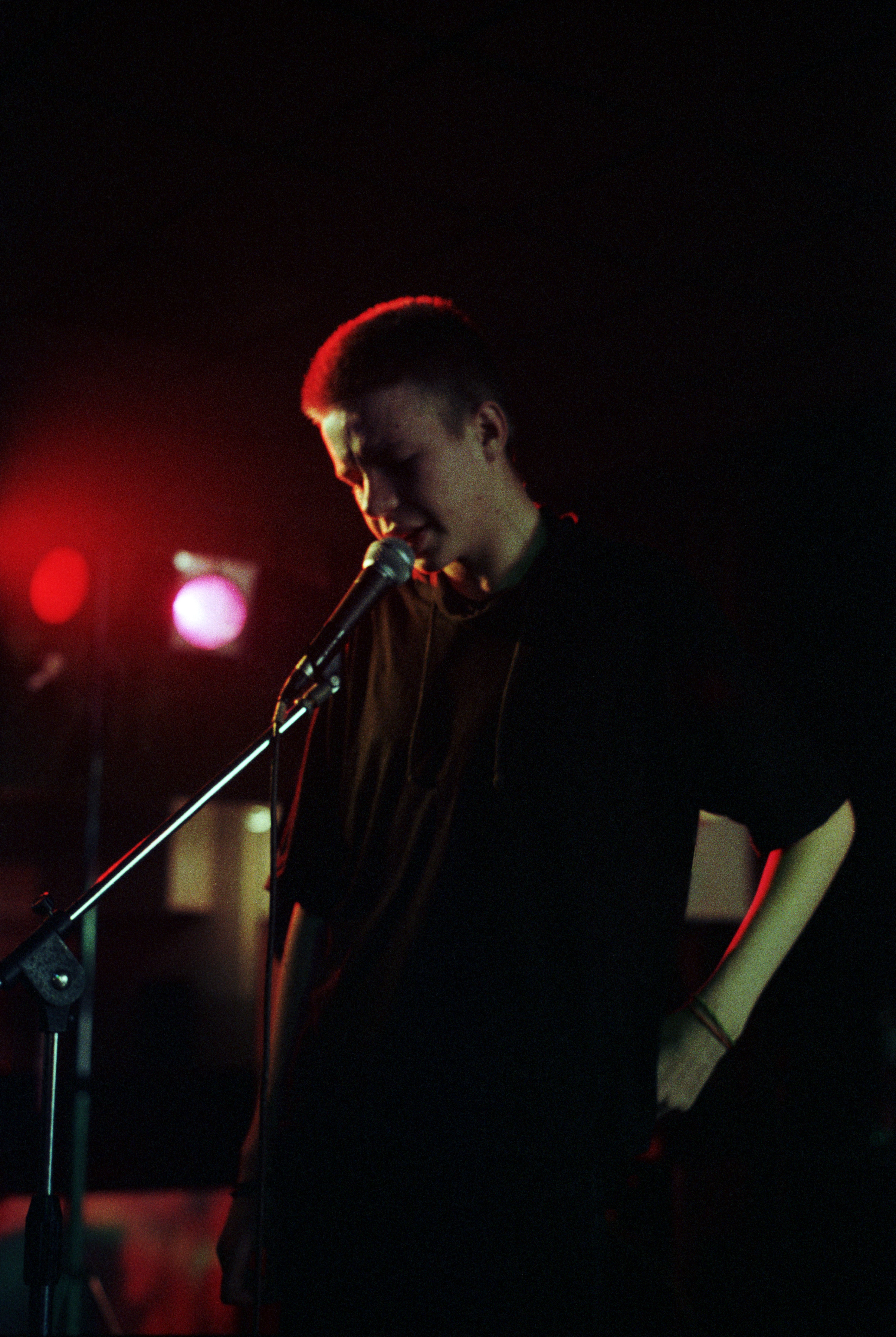 Llyr Ifans, Terry Waite ar Asid. Roc Ystwyth 1989. Image by Medwyn Jones.